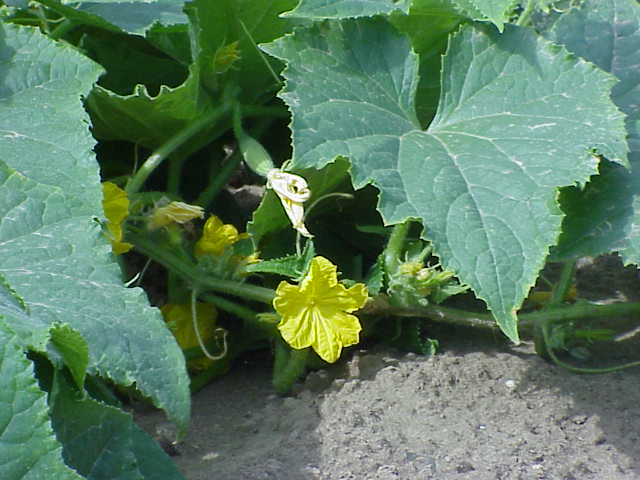 Species: Cucumis sativus Family: ' Image No. 1